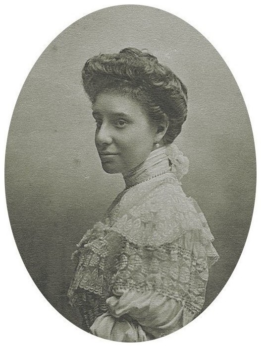 Infanta Maria Teresa of Spain (1882-1912), sister of Alphonso XIII